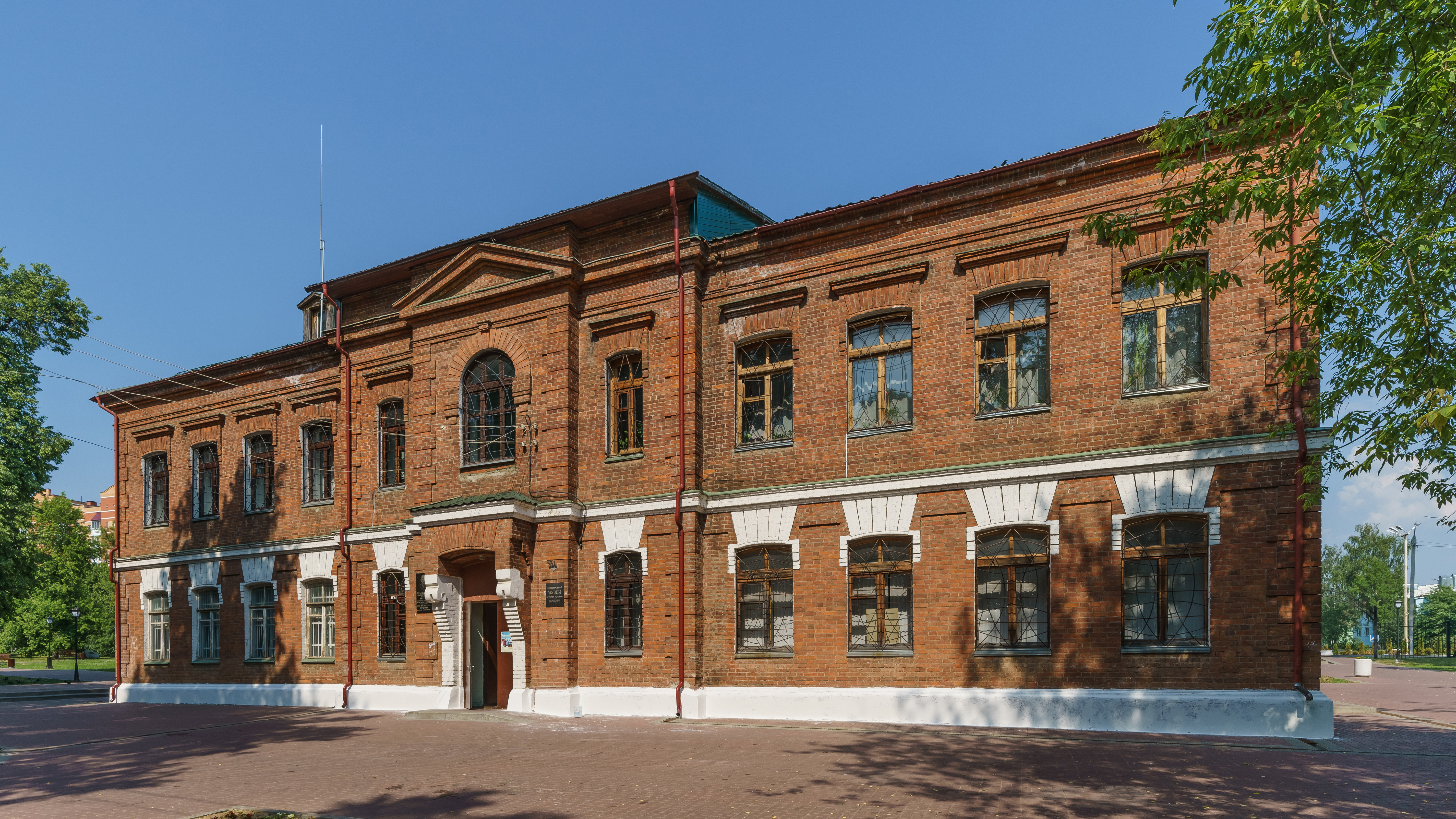 Alexandrovo-Schapovo Estate in Moscow, Russia